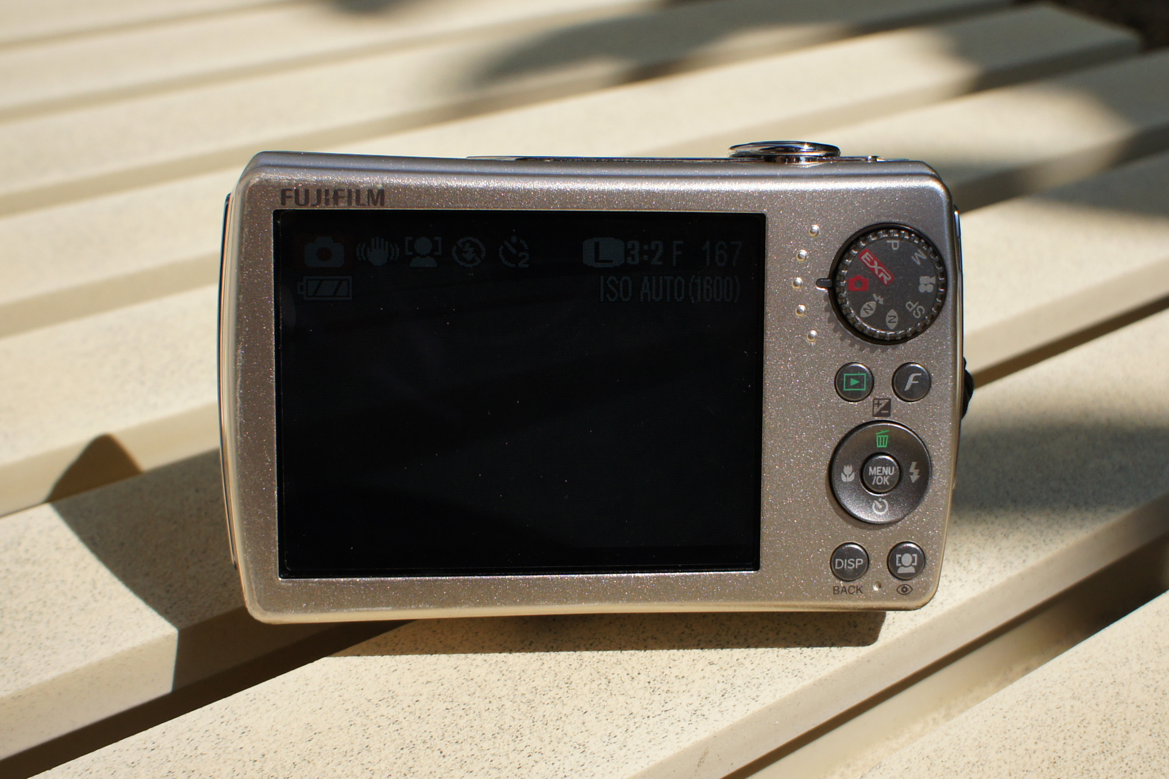 Fujifilm FinePix F200EXR